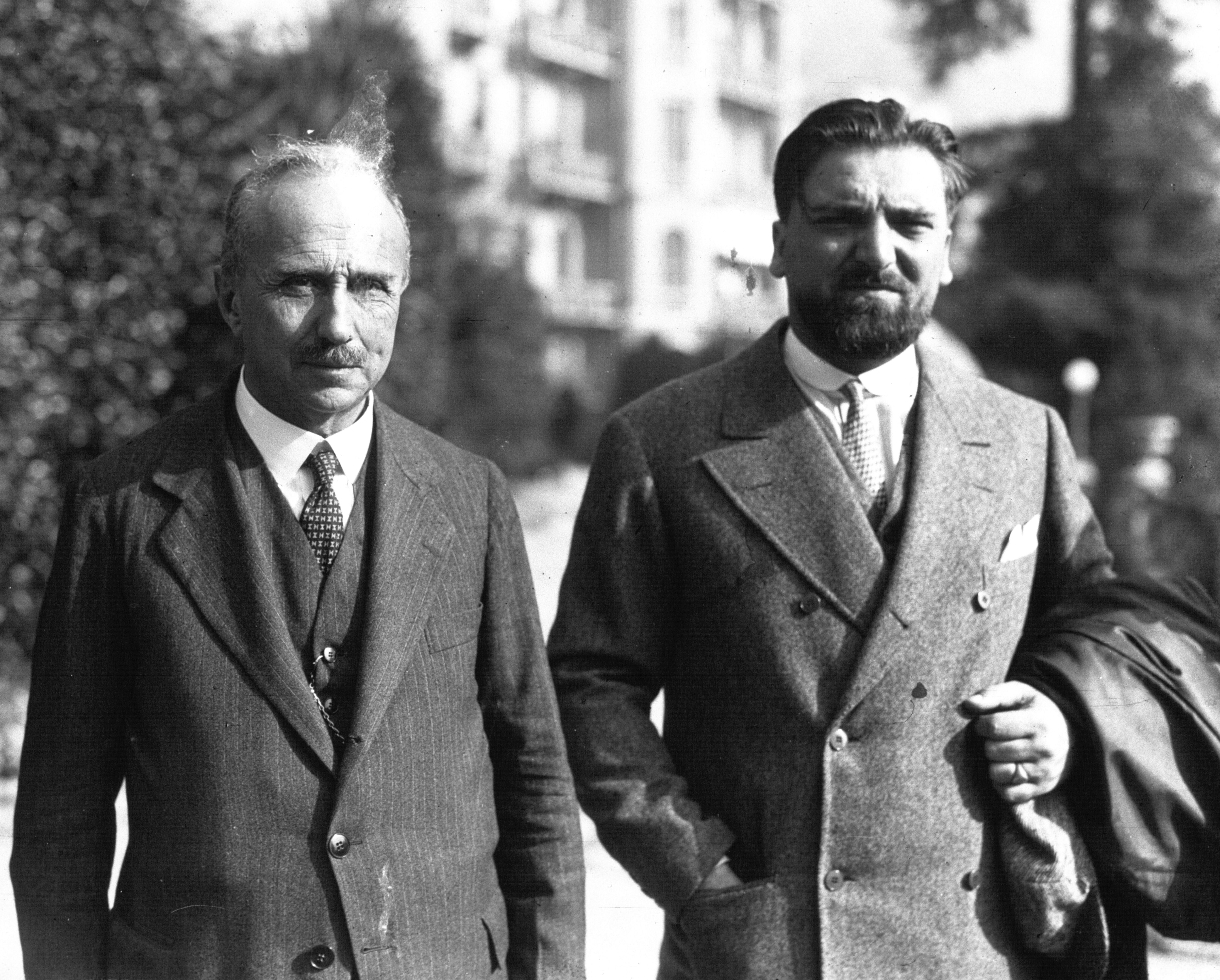 Locarno Treaties, 1925. From left to right: Vittorio Scialoja, Dino Grandi.